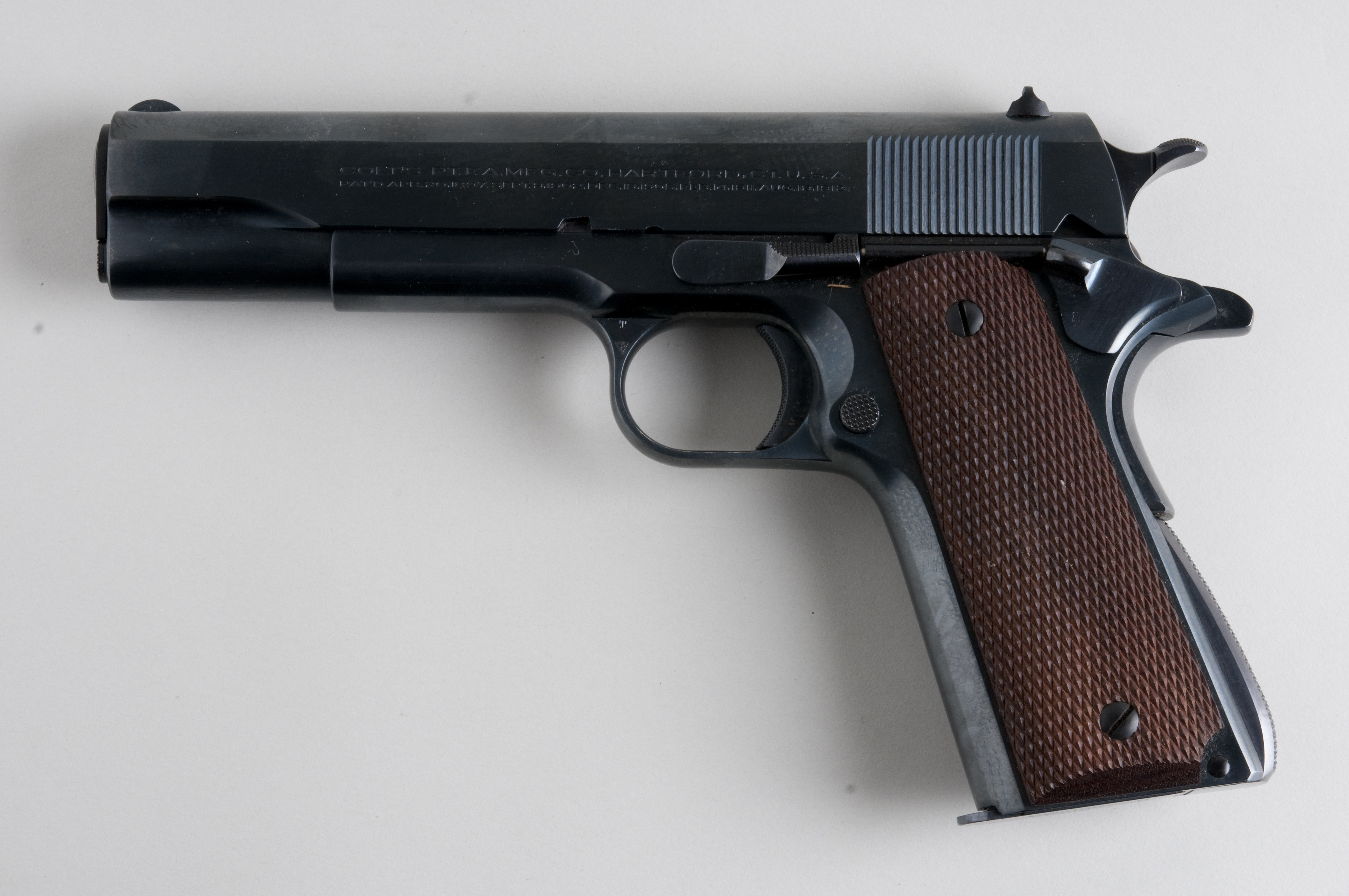 Colt 1911A1 From flickr user handvapensamlingen - Pistols used in Norway.